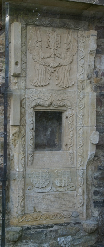 Deskford Church, Deskford, Moray, Scotland - sacrament house